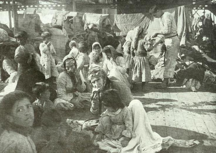 Armenian refugees from Musa Dagh on the deck of one of the French ships had gathered in September 1915.